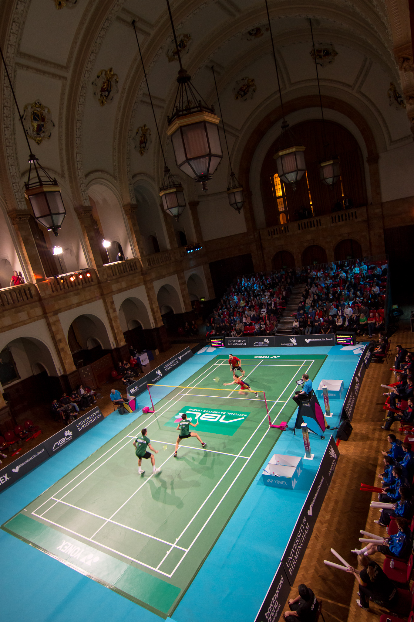 The Great Hall at the University of Birmingham being used to stage an NBL badminton match